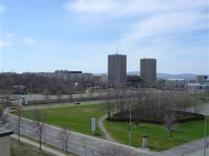 This is a picture of the Laval University campus. I took this picture myself on May 9, 2004.